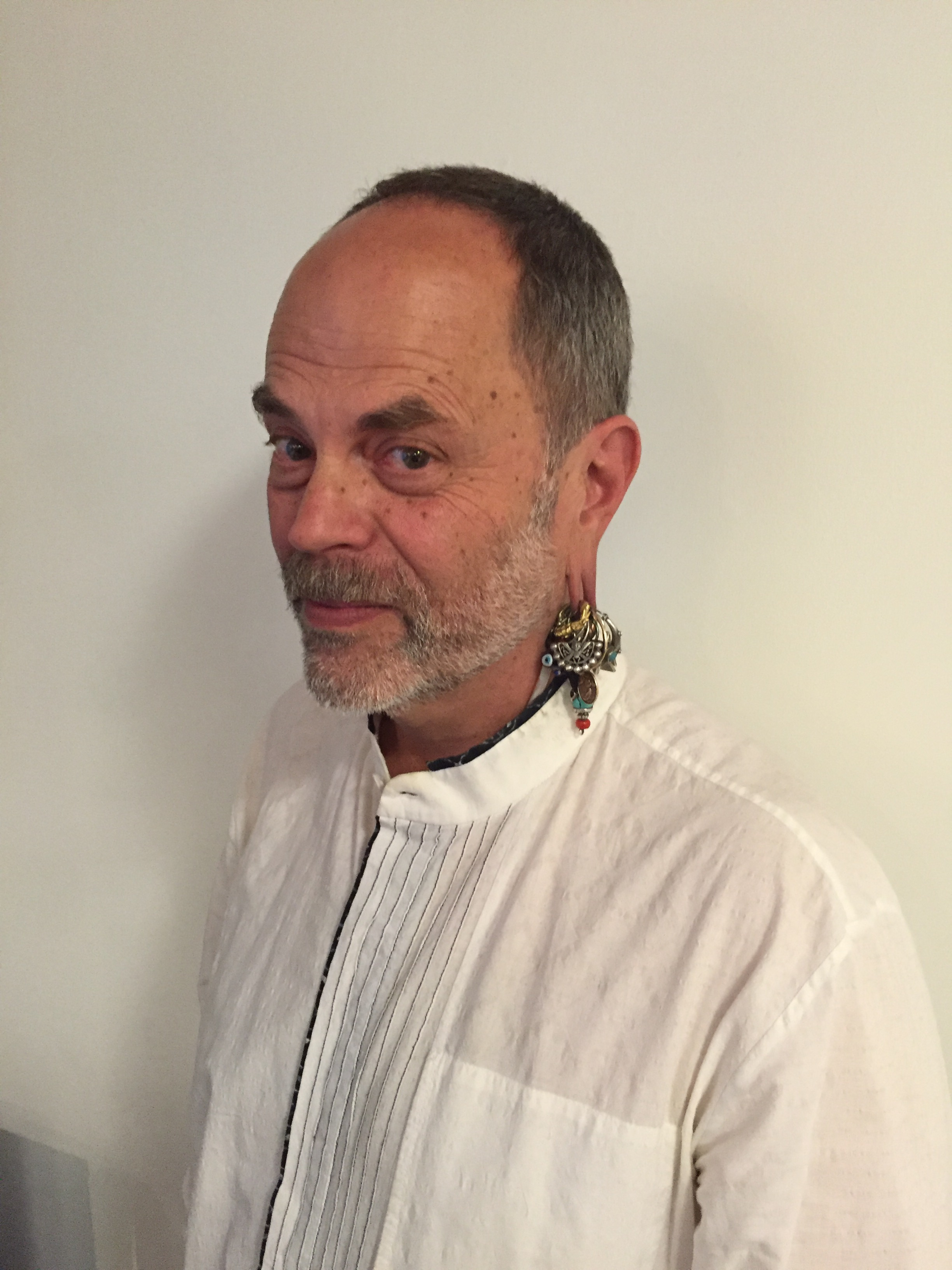 Joe Rohde, Disney Imagineer